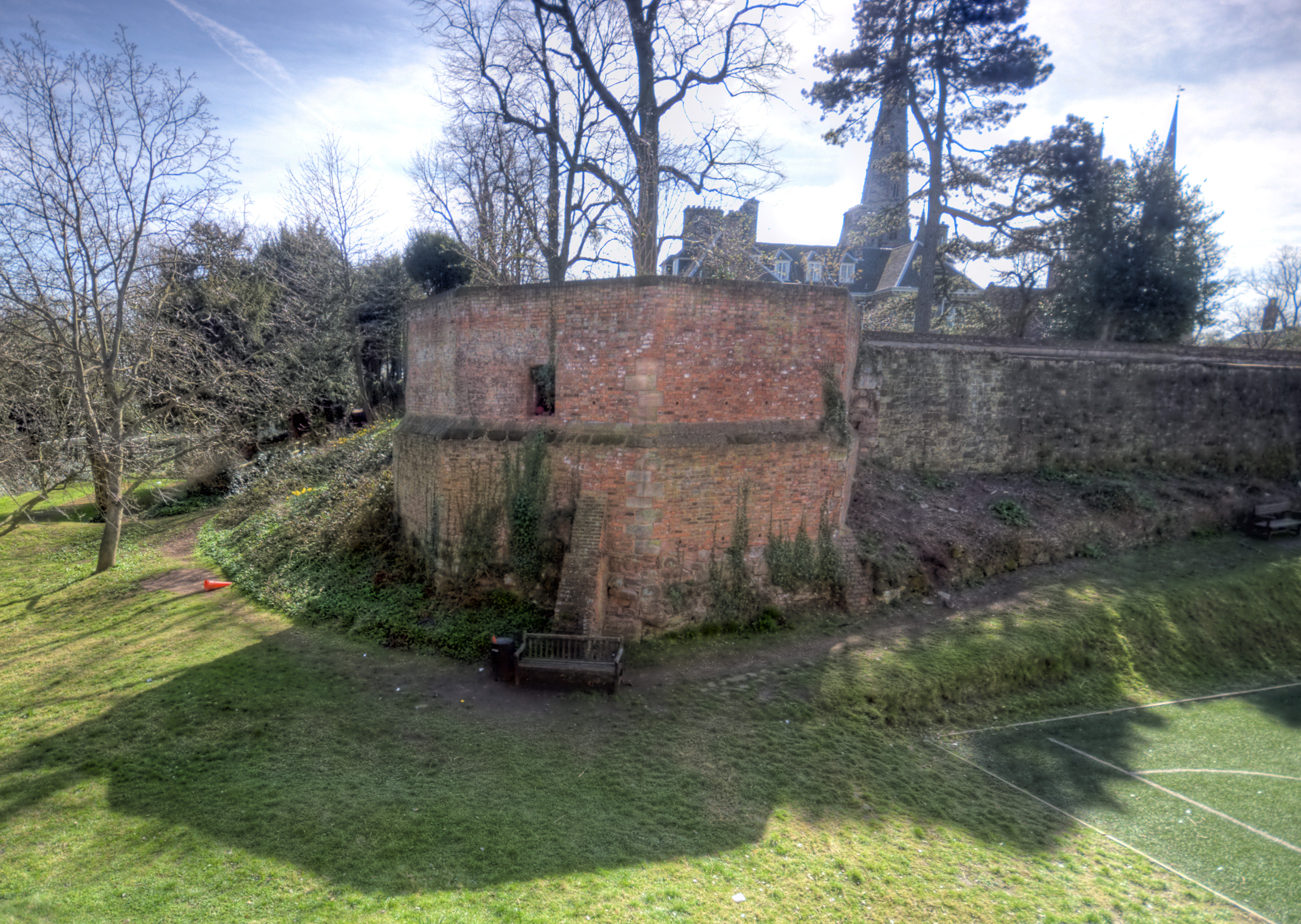 The remaining parts of the Cathedral Close defensive walls and towers at Lichfield. The north east corner tower at the rear of Bishops Palace is classed as a Scheduled Ancient Monument.